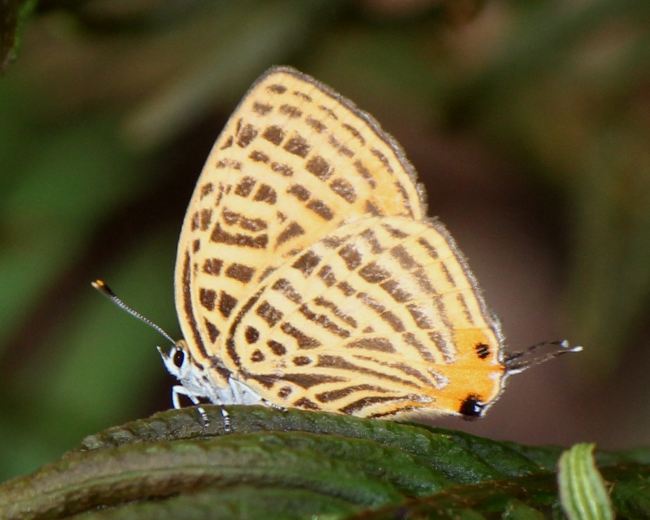 Japonica saepestriata saepestriata, in Aichi pref., Japan.